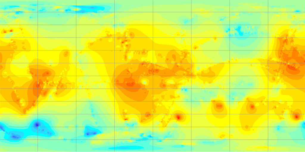 Topographic Map of Titan moon. Derivative work from NASA original available at